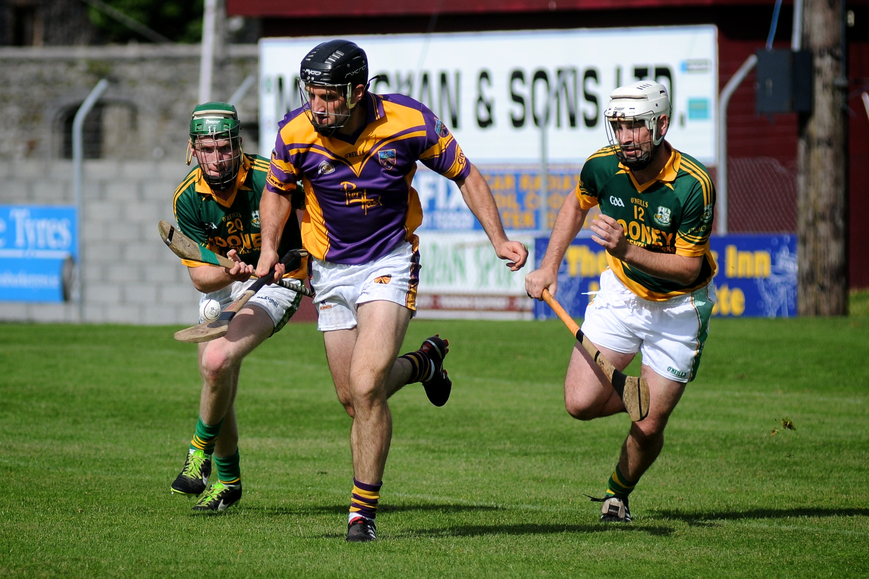 Shane Kavanagh playing for Kinvara is persued by Brian Dolan & Kealan Greene of Craughwell in the 2013 Galway Senior Hurling Championship in Athenry